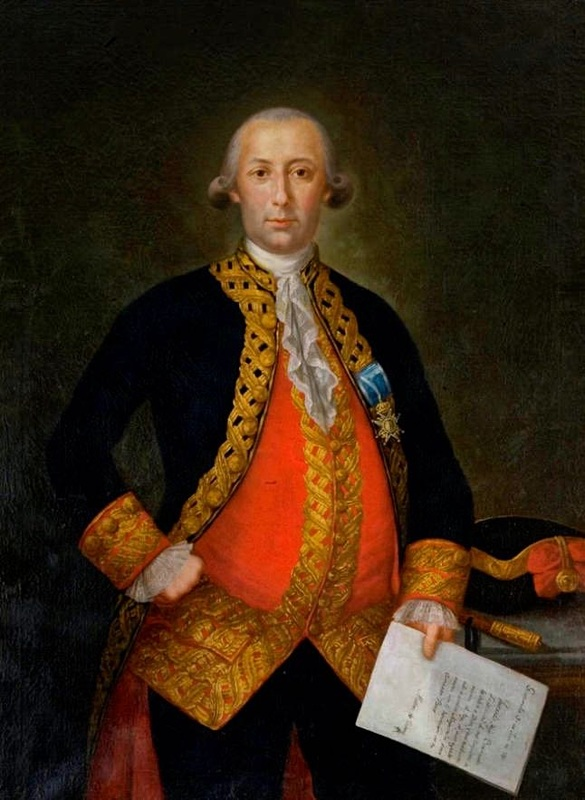 The Spanish General Bernardo de Gálvez (1746-1786), hero of Pensacola's Battle